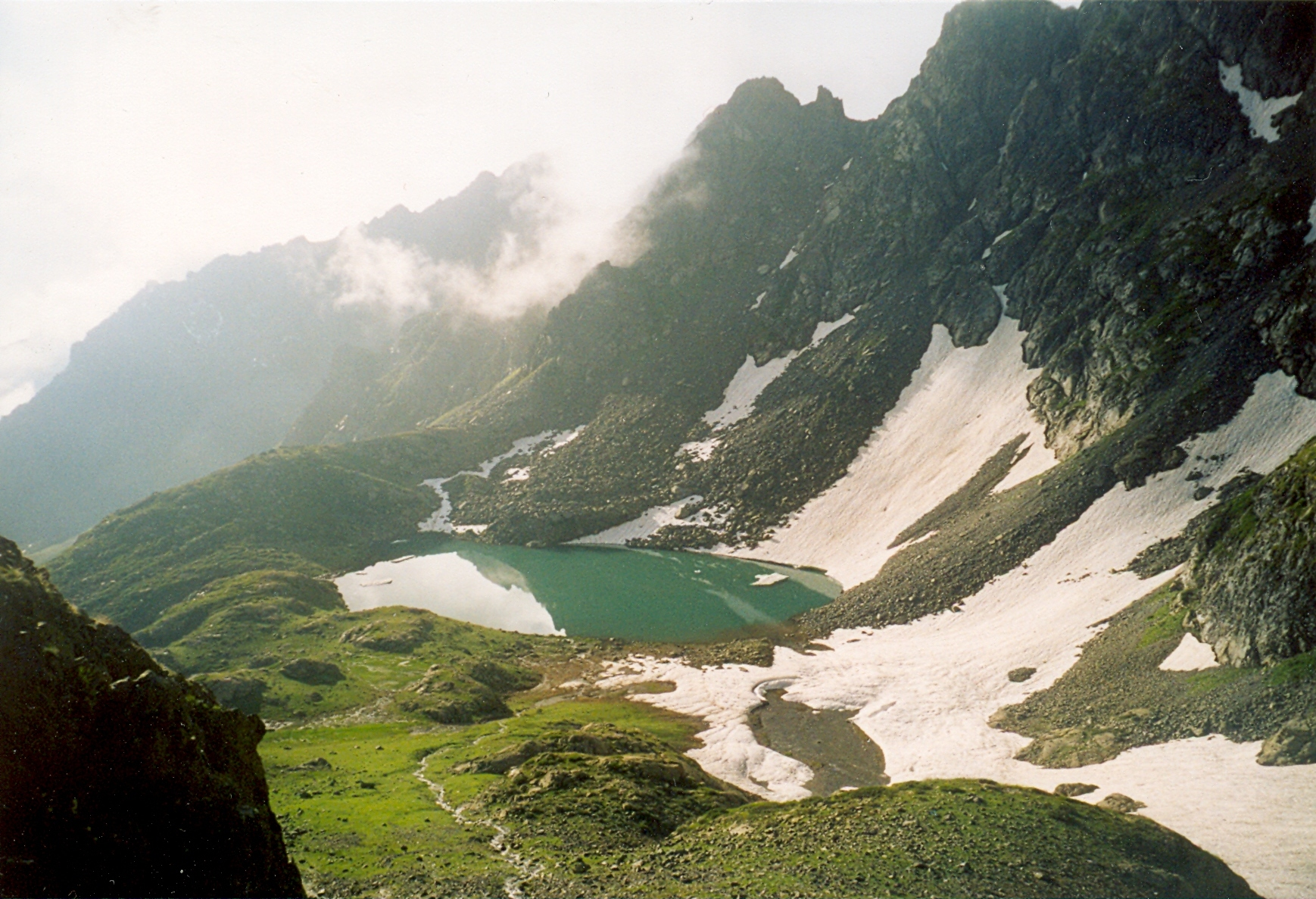 Libler Gölü, Kaçkar Mountains, Turkey.